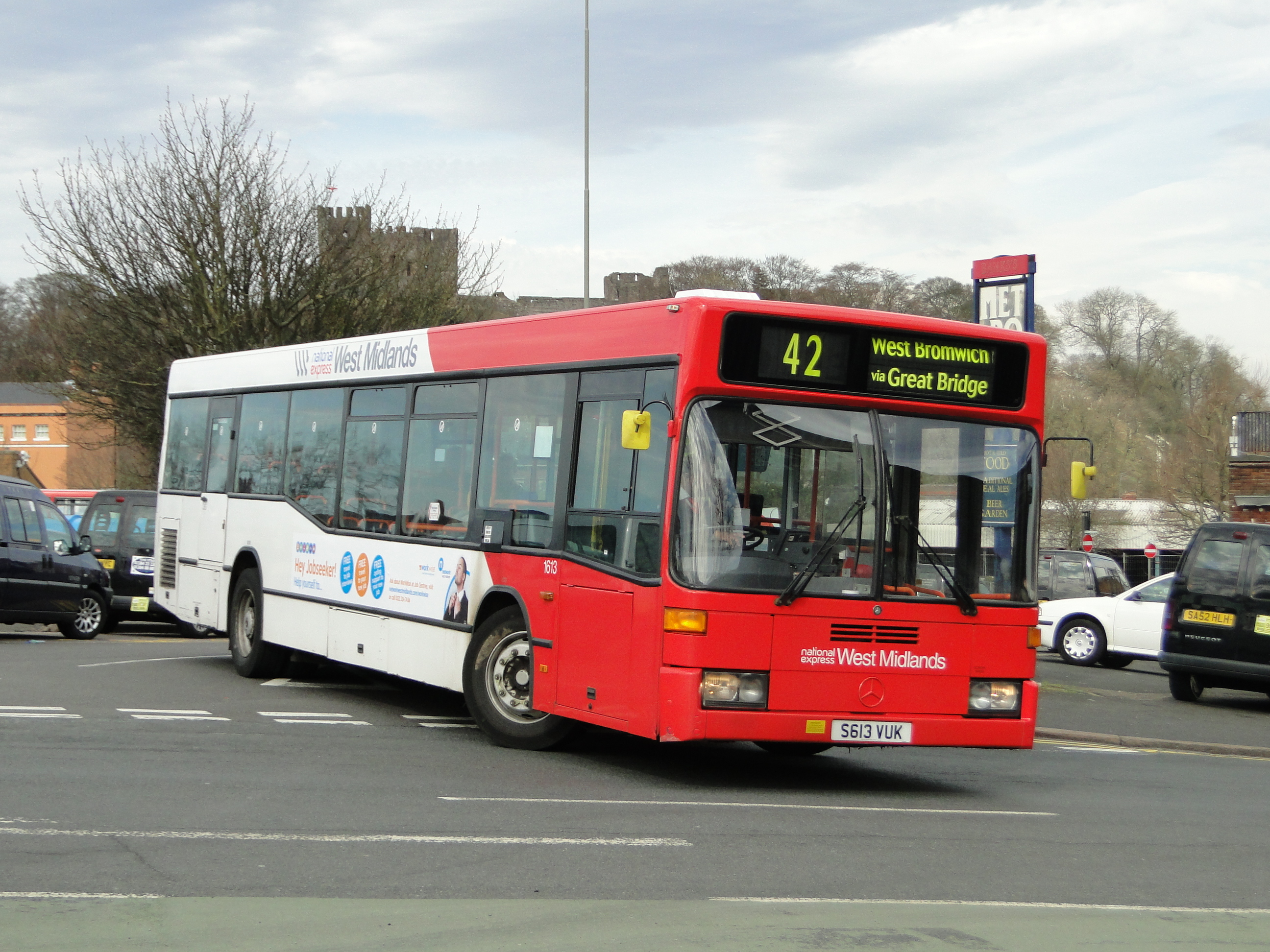 National Express West Midlands' S613 VUK (Mercedez-Benz O405N) in West Bromwich on 15th March 2014.